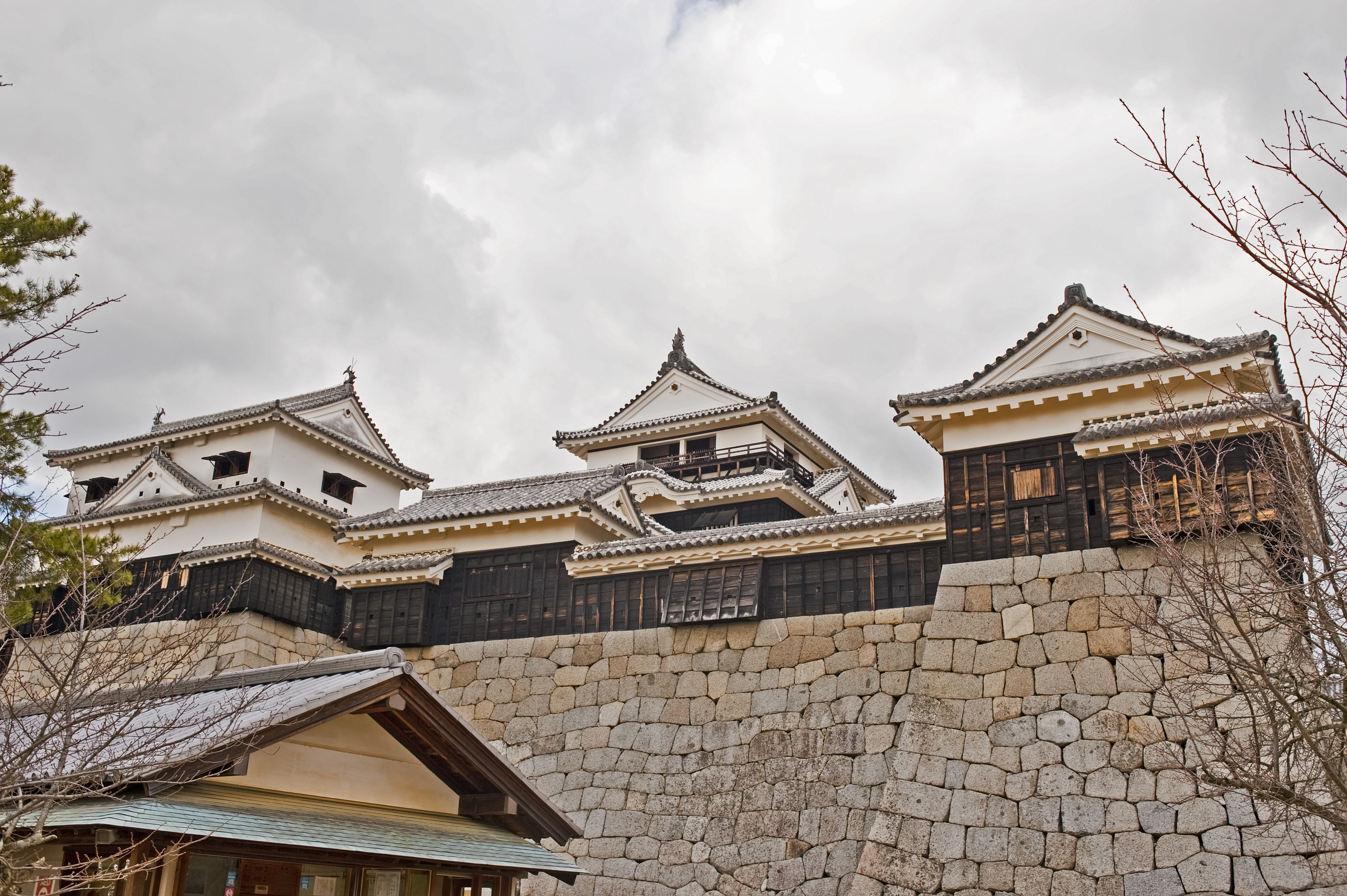 Matsuyama Castle in Matsuyama, Ehime